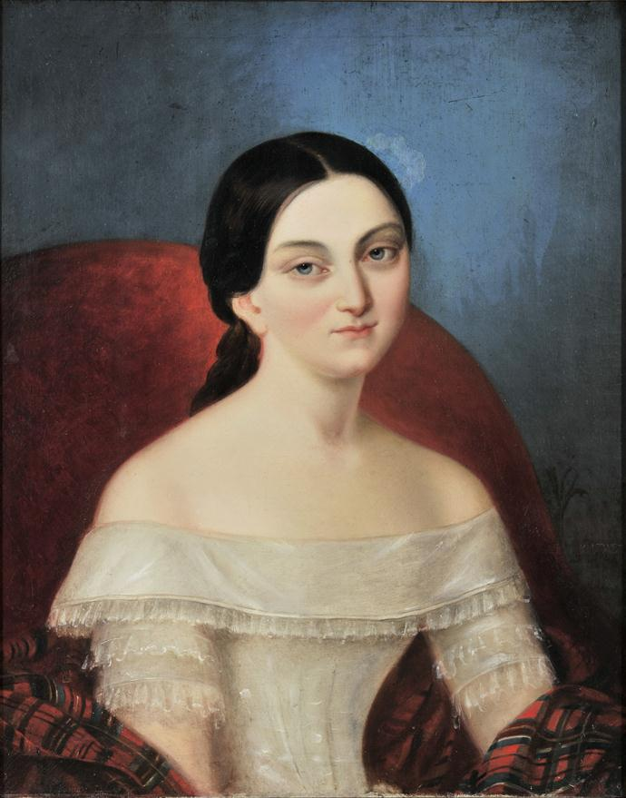 Portrait of Isabella Yatra